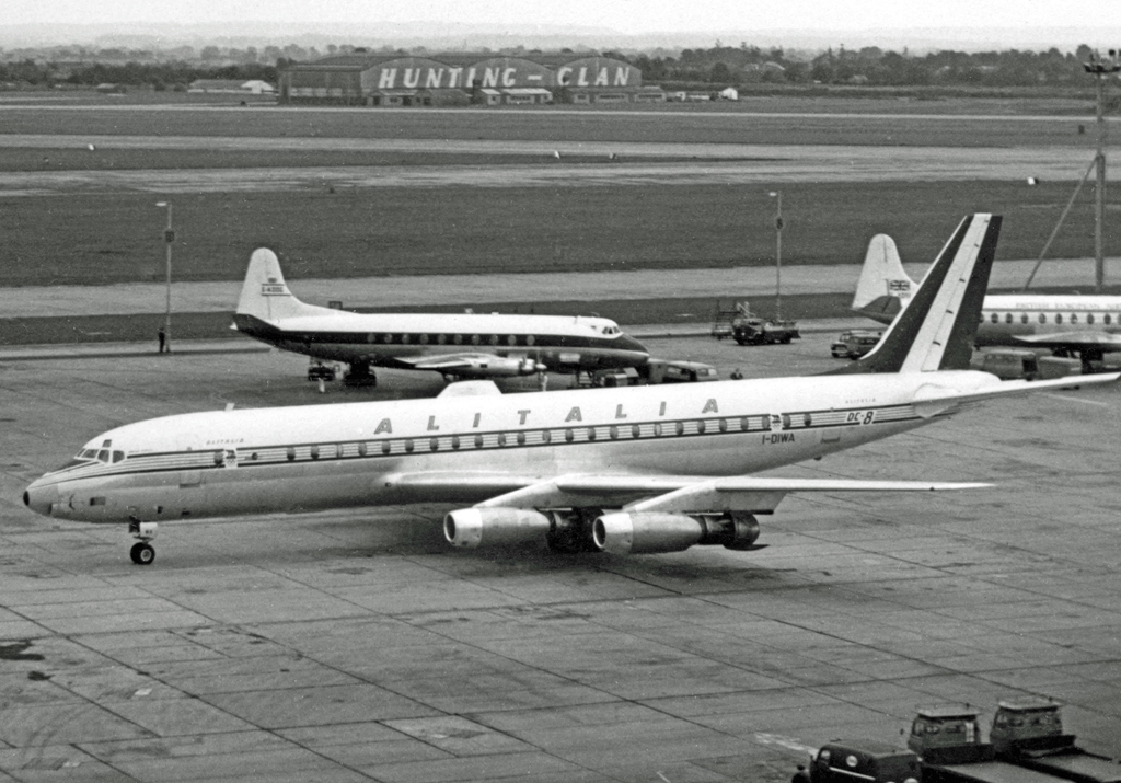 Douglas DC-8-43 I-DIWA of Alitalia at London Heathrow Airport